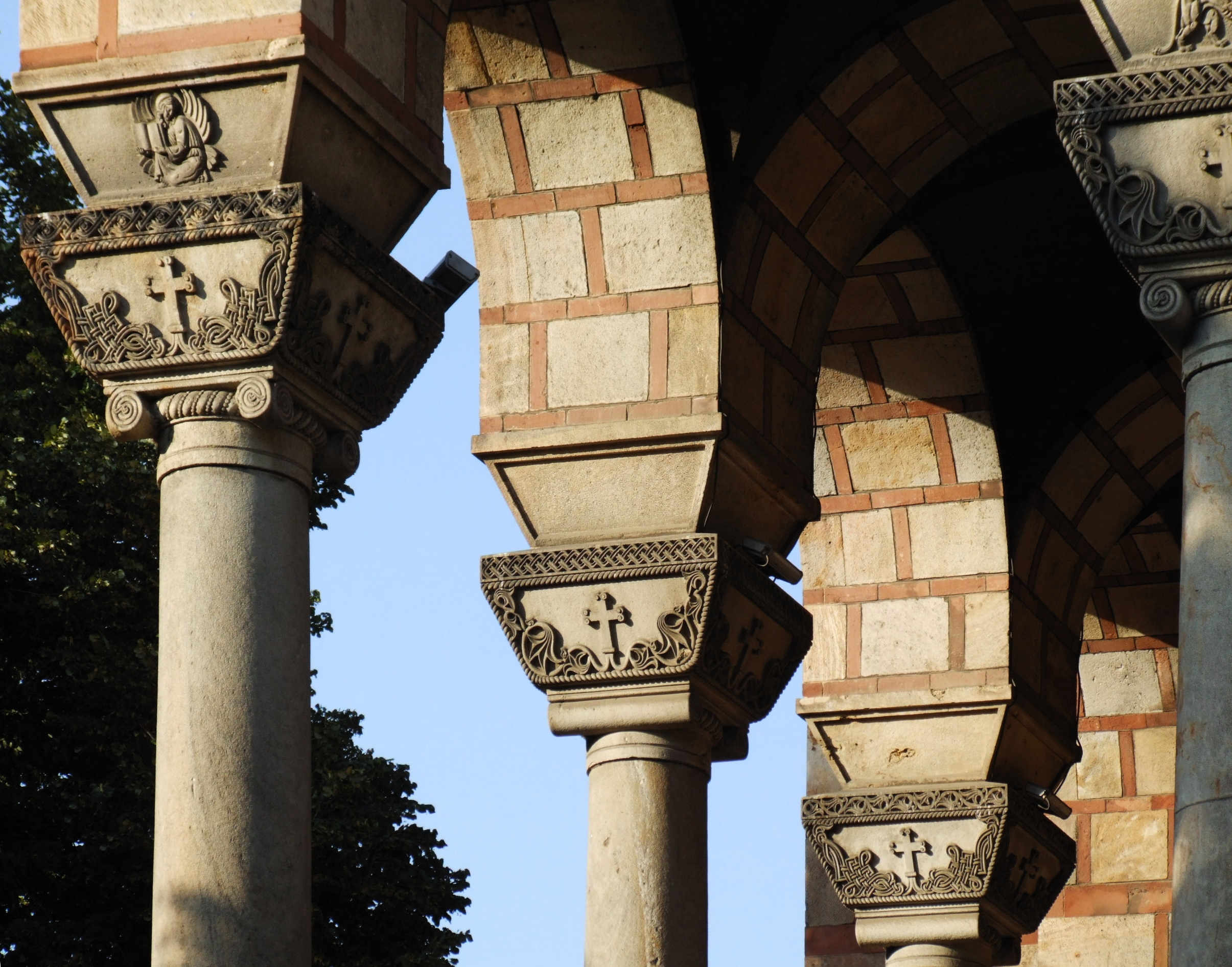 Saint Mark church, Belgrade - detail 66″ N, 20° 28′ 06.91″ E